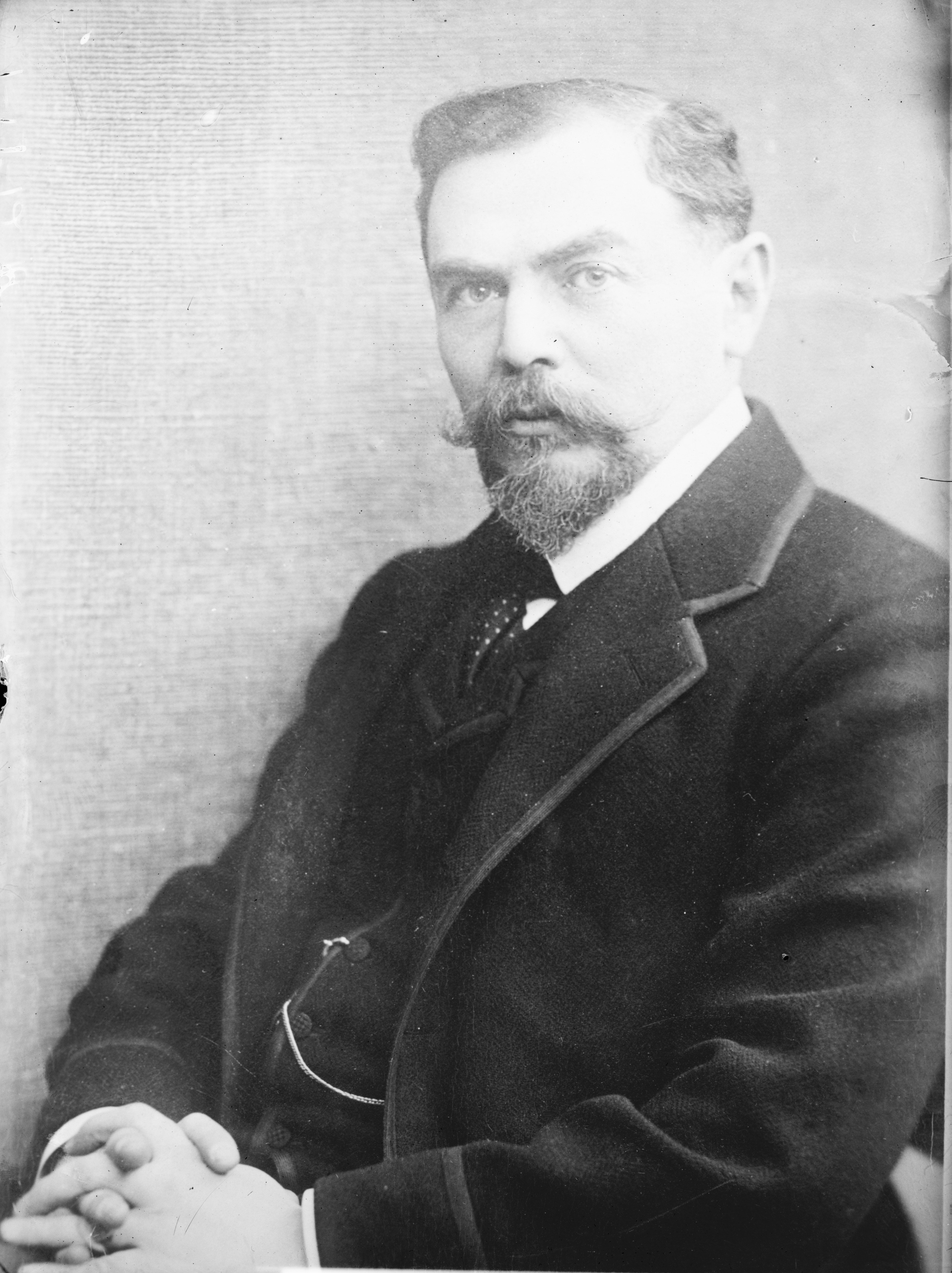 Alfred Hermann Fried (1864–1921)